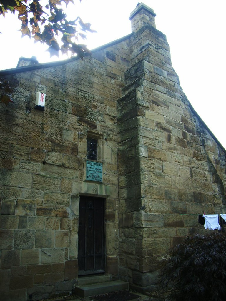 Friestons Hospital, Kirkthorpe. Former almshouses built circa 1595 by John Freeston, Esq., of Altofts for the accommodation of 7 poor men.